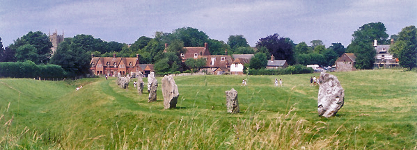 Avebury Henge and Village, England Photo' by Wikityke.